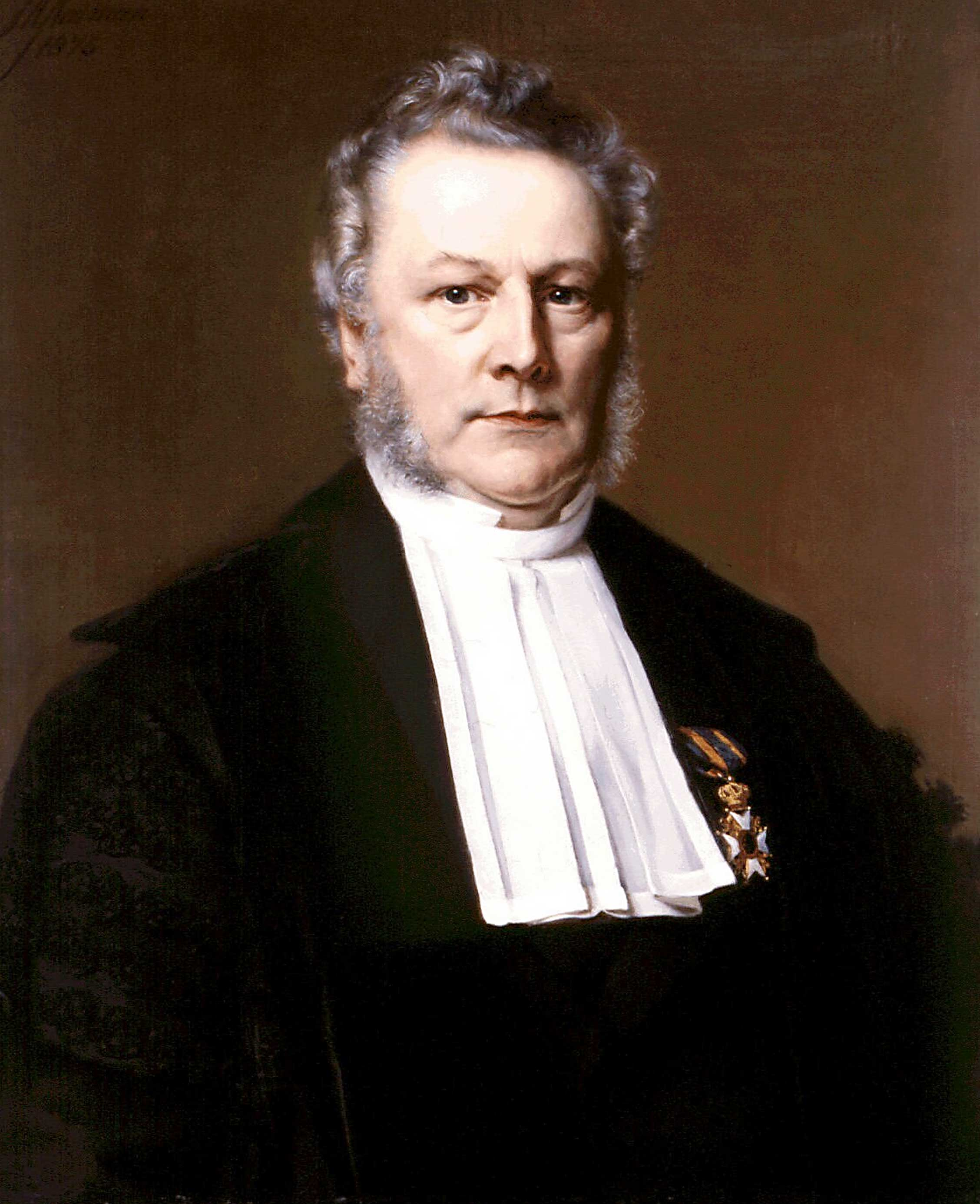 Gozewijn Jan Loncq (1810-1887), Dutch physician